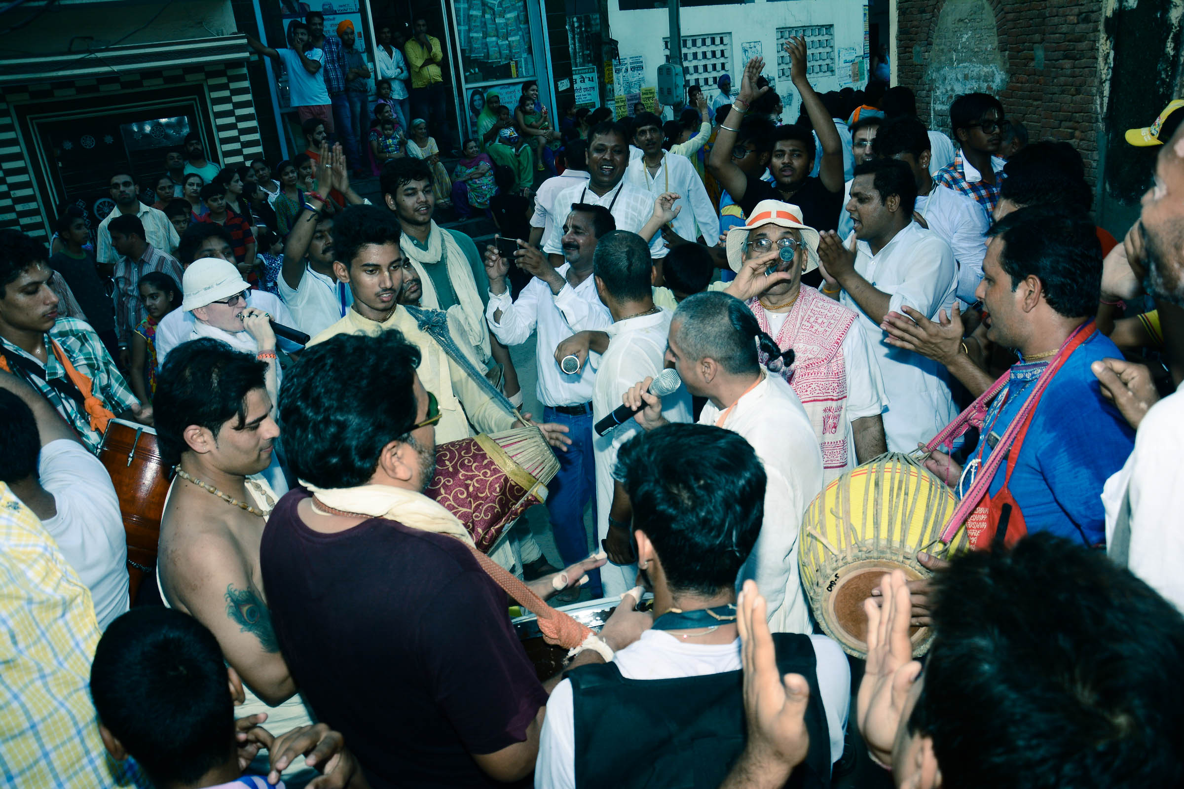 Bhajan Mandali At Nabha Ratha Yatra. Singing Jai Jagannath and Hare Krishna Hari Bol Hari Bol